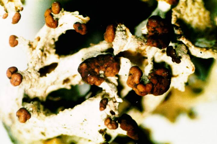 Cladonia cariosa (Ach.) Spreng., 1827 (photograph of a herbarium specimen taken through a dissecting microscope (x15) showing chocolate-brown apothecia) Growing on soil in Cladina barrens in open Jack Pine woods near Crumley Creek, off US-68, Cheboygan, Michigan, USA; collected and identified by Richard E. Riefner (No. 81-223, 14 Jul 1981); specimen is now in the Lichen Herbarium of the New York Botanical Garden.